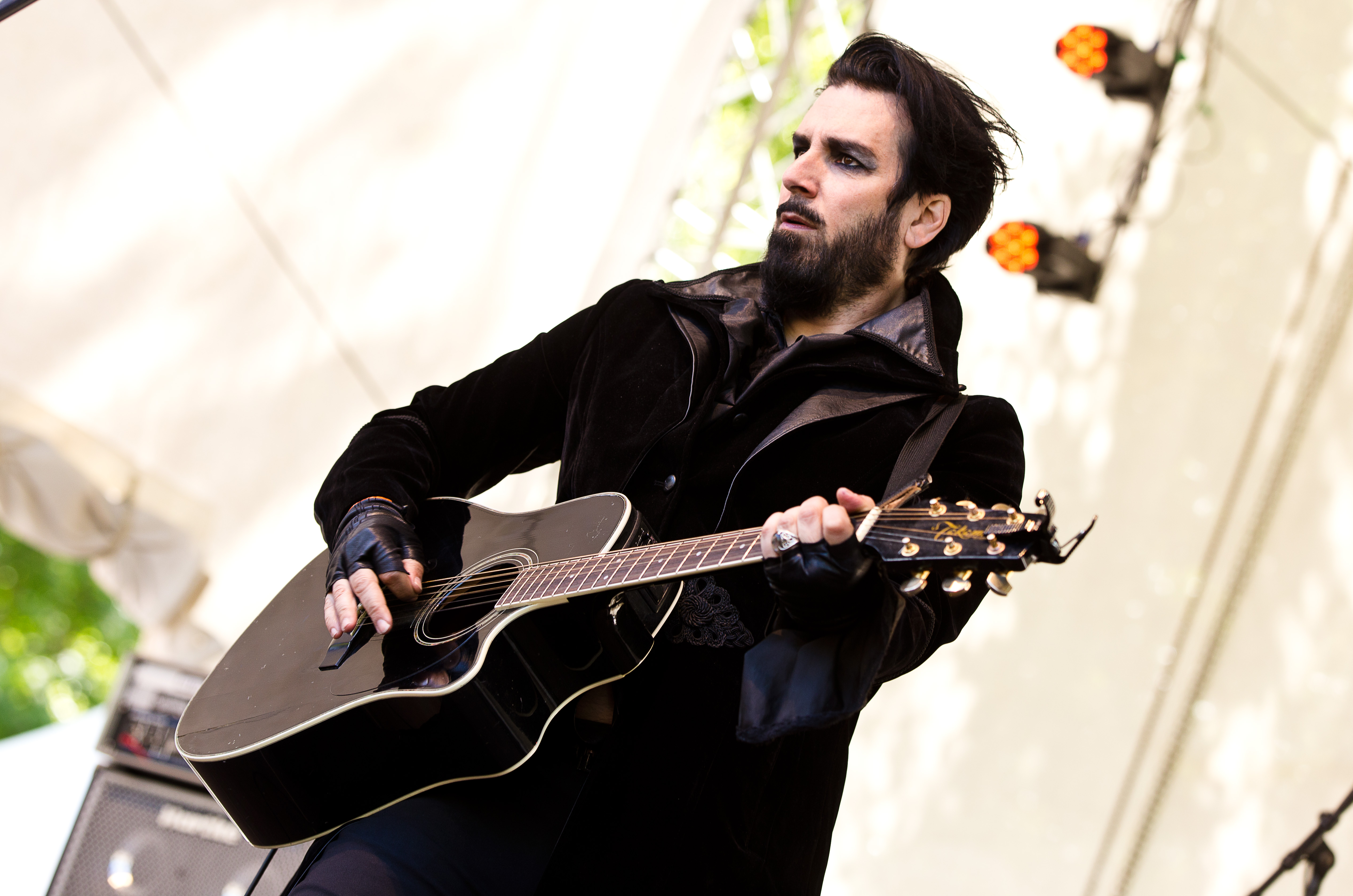 The American musician Aurelio Voltaire at the 25. Wave-Gotik-Treffen 2016 in Leipzig/Germany.